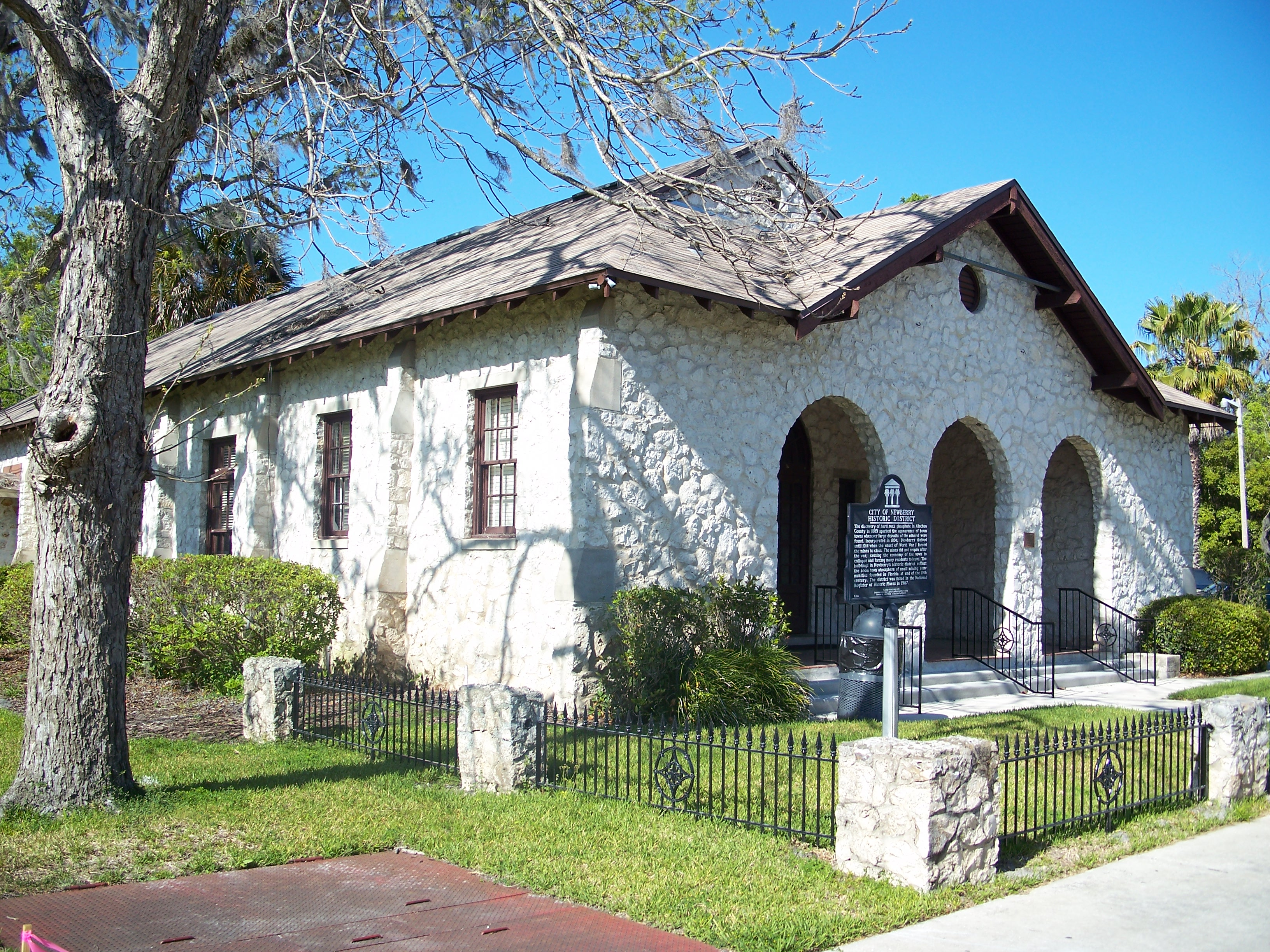 The city hall in the Newberry Historic District, in Newberry, Florida